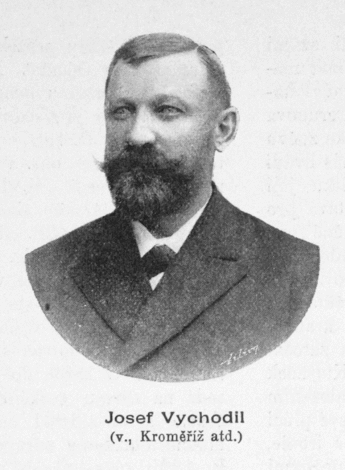 Portrait of Josef Vychodil (1845-1914), Czech politician.